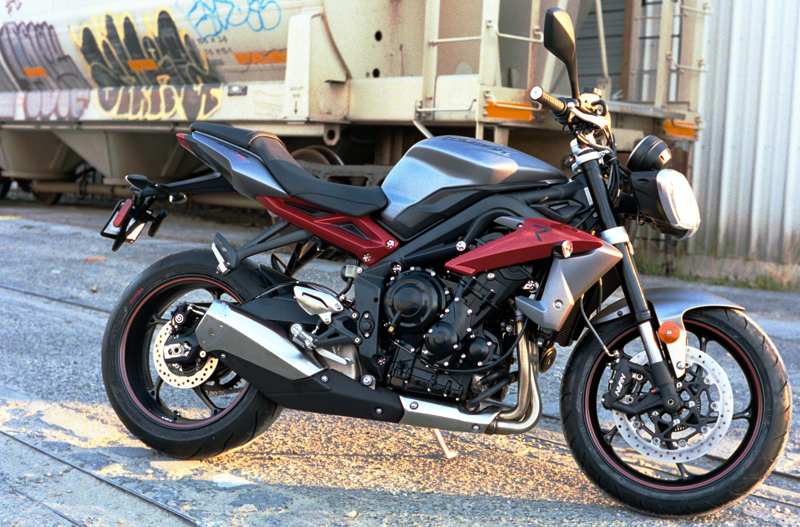 2014 Triumph Street Triple R, matte graphite. Completely stock. Near Salmon Bay Sand & Gravel Co., Ballard, Seattle Washington, US.